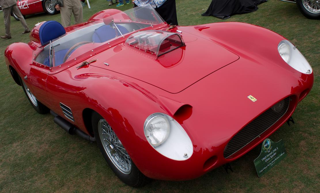 Three examples of the Ferrari 246 Dino were constructed at the end of 1959, all featuring Fantuzzi-built bodies (0776, 0778 and 0784). The last of these, 0784, was subsequently re-bodied in the early 60's in a style similar to that then being employed on the last of the front-engine Testa Rossa models. Chassis 0778 made its debut as a Ferrari works entry in January 1960 in Buenos Aires, where it was driven by Argentine veteran Jose Frolian Gonzalez and debonair Italian Ludovico Scarfiotti. It next appeared at the Targa Florio in May 1960, along with the other two Dino works cars. This race gave the Dinos their greatest success in a major international event. Despite various incidents, Phil Hill and Wolfgang von Trips finished second overall in 0784; Scarfiotti, Willy Mairesse and Giulio Cabianca brough 0778 home in fourth and the NART-entered 0776 driven by Pedro and Ricardo Rodriguez finished seventh, despite having had frequent contact with immovable objects and being rolled.